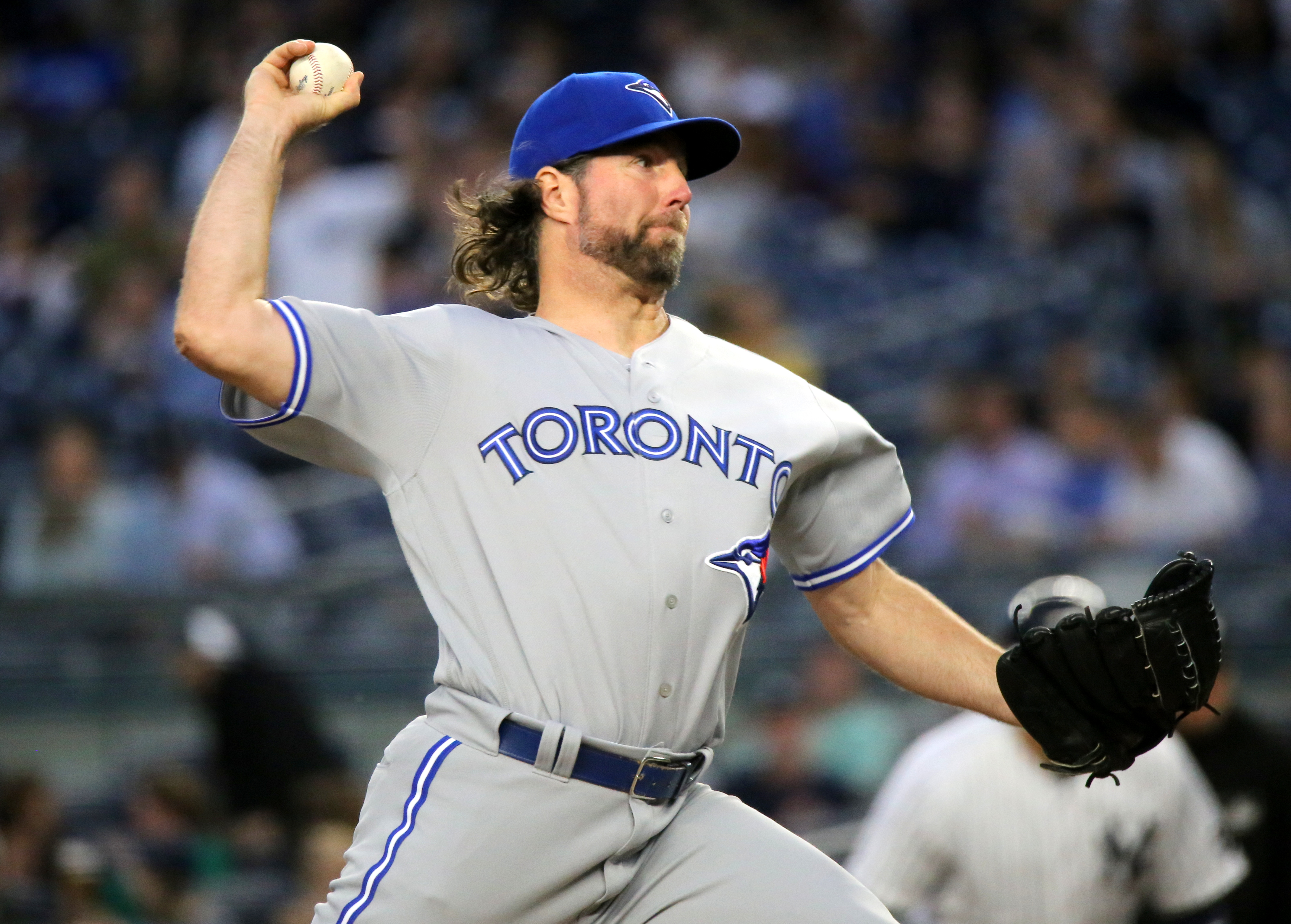 R.A. Dickey on May 24, 2016.